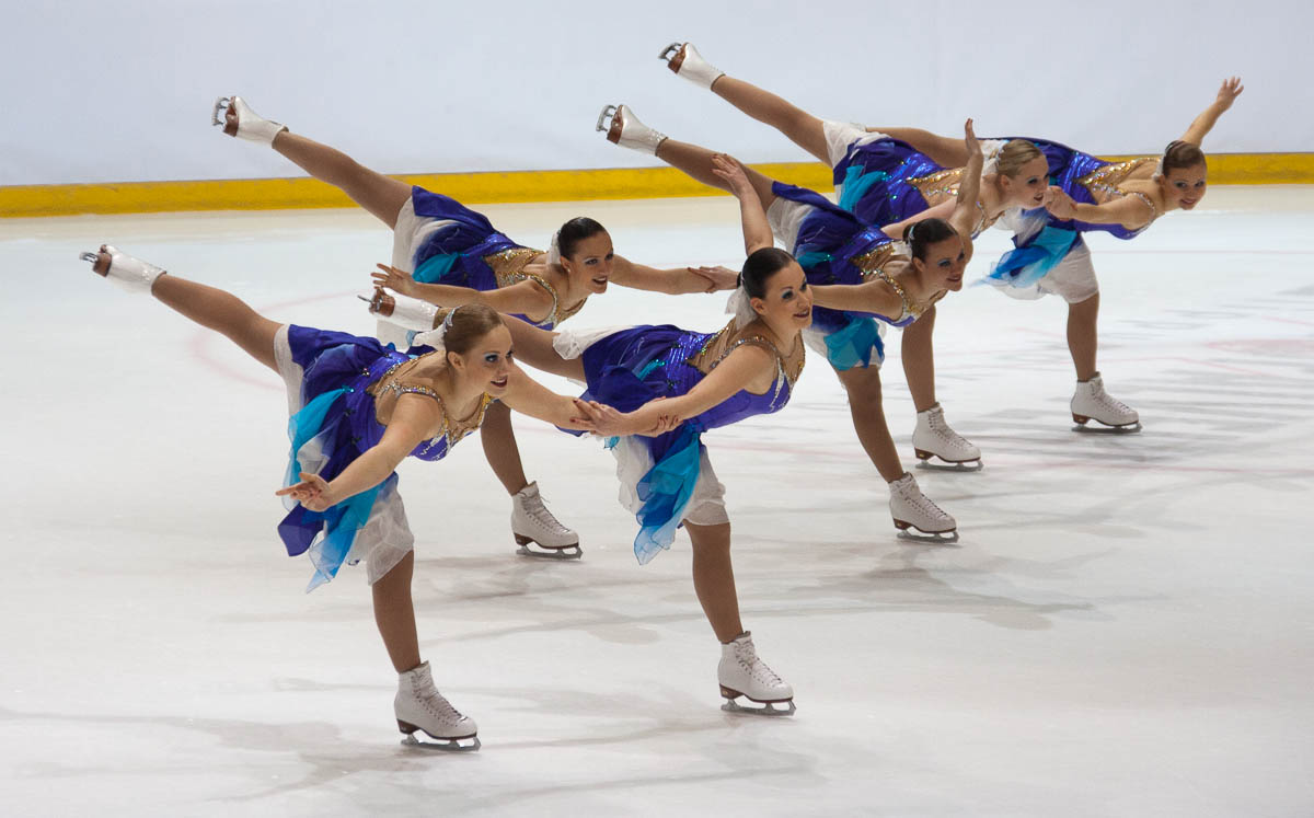 Rockettes, Finnish championships 2012 Helsinki